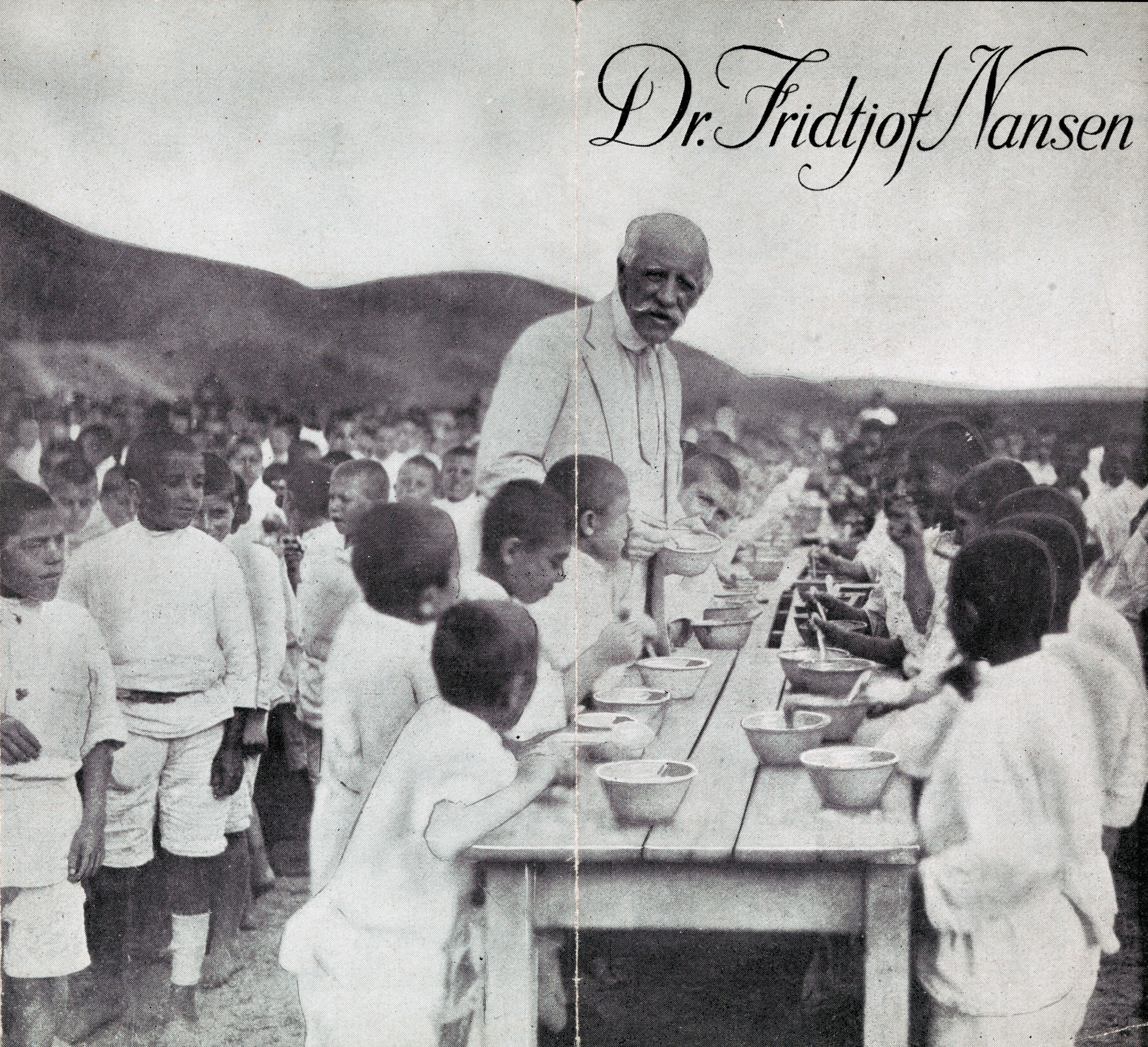 Information brochure about the Near East Relief with Fridtjof Nansen's open letter to the American people about the relief efforts in Armenia. Fridtjof Nansen among orphaned Armenian boys at a summer camp near Gyumri (06/23/1925).